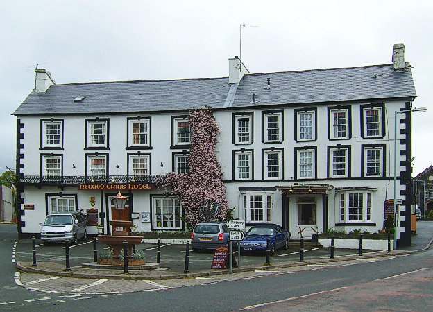 The Neuadd Arms in Llanwrtyd Wells, Powys, Wales.